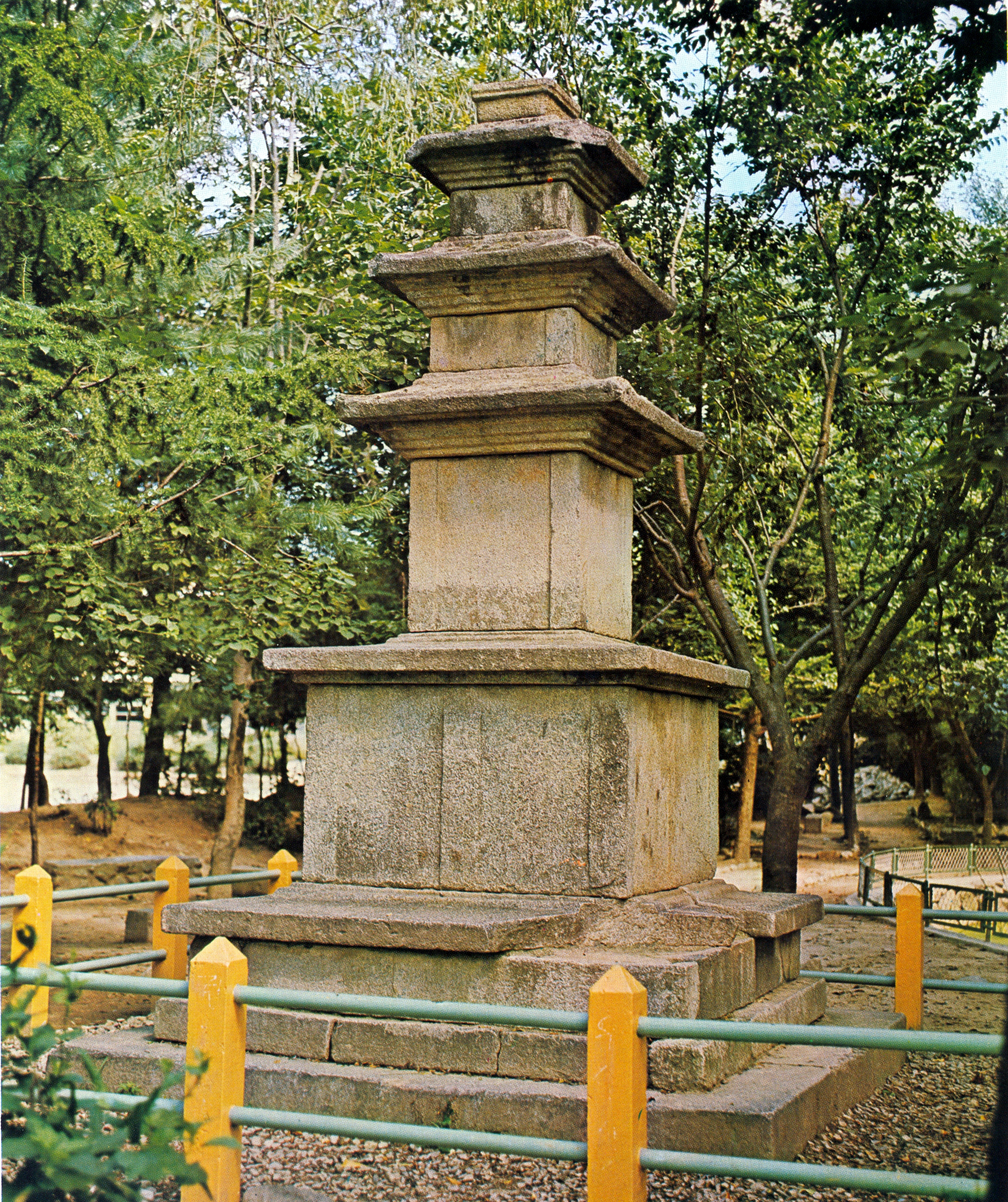 Three-story Stone Pagoda at Seodong-ri in Bonghwa, Korea